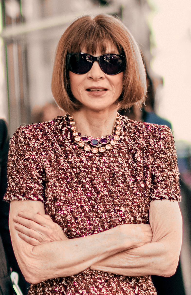 File:Anna Wintour Paris Fashion Week Autumn Winter 2019.jpg cropped to show just Wintour's head and arms